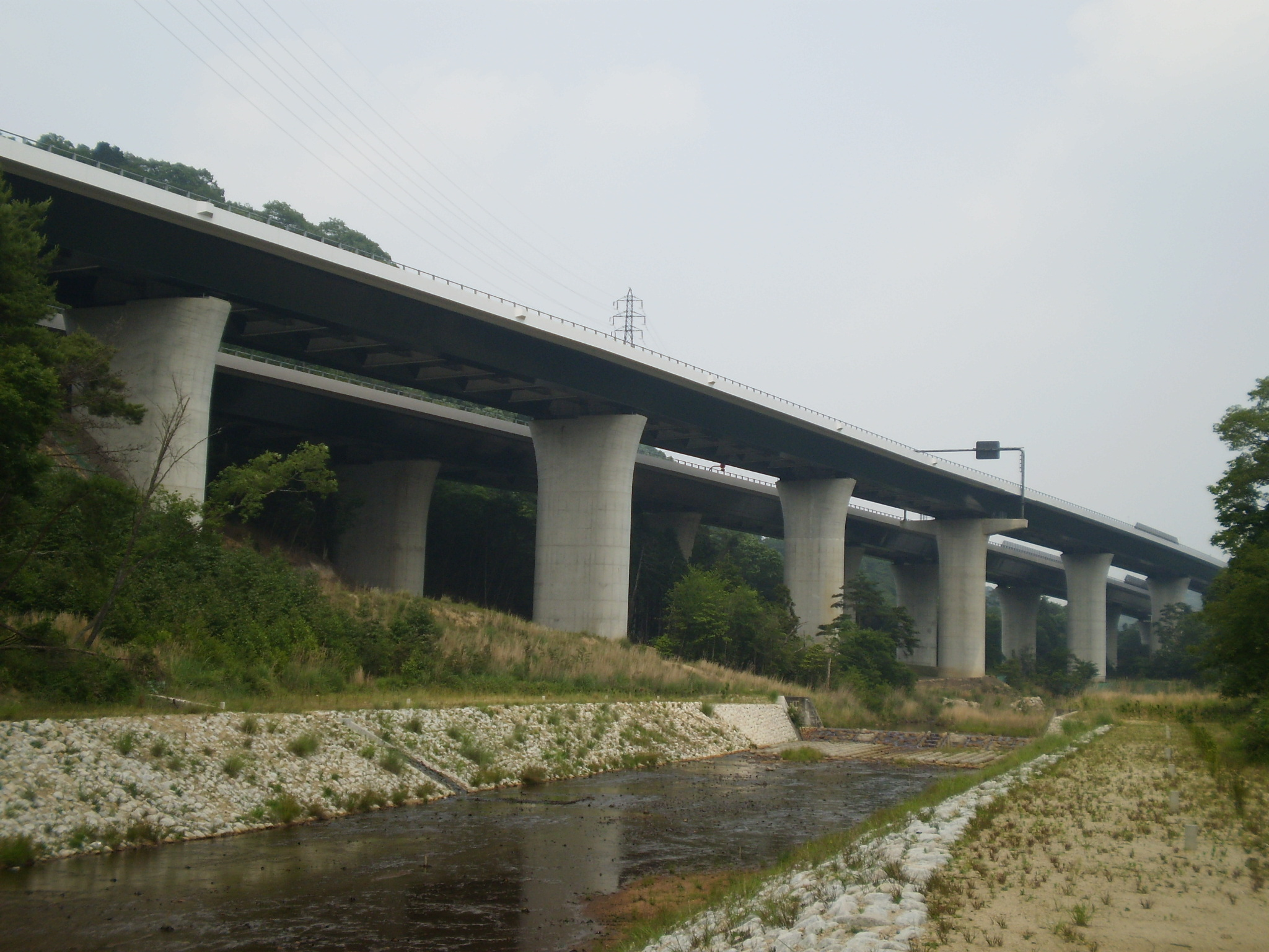 Hayatogawa Bridge on the Shin-Meishin Expressway in Shigarakicho Kinose, Koka City, Shiga Prefecture, Japan